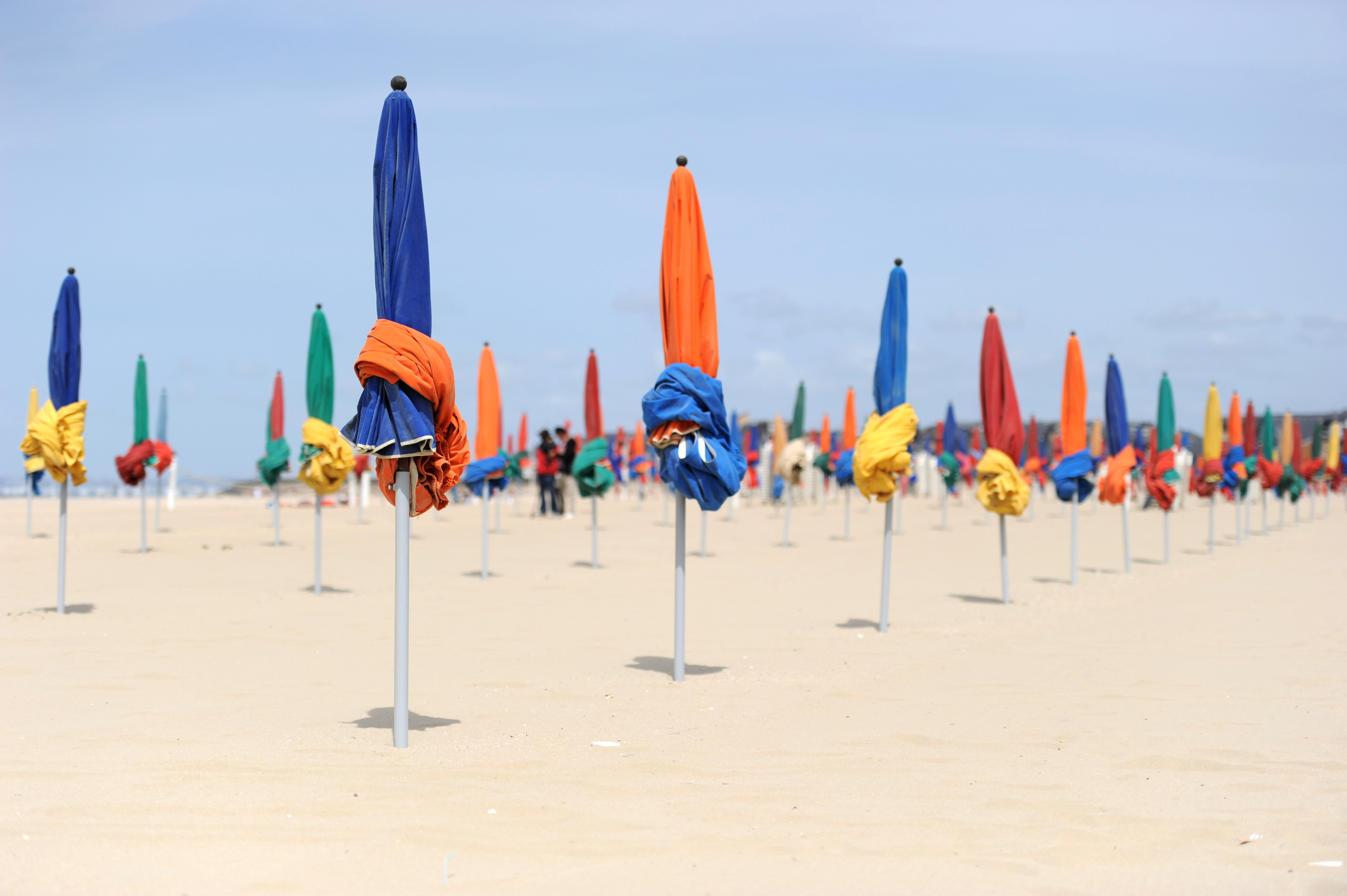 Parasols in front of the planches de Deauville, a famous wooden promenade on the beach in Deauville, France. This picture was taken two days before the 37th G8 summit, during which the whole area was under extremely high security measures ("sanctuarized zone"), and reserved to Heads of State, Heads of Government and members of their delegations.